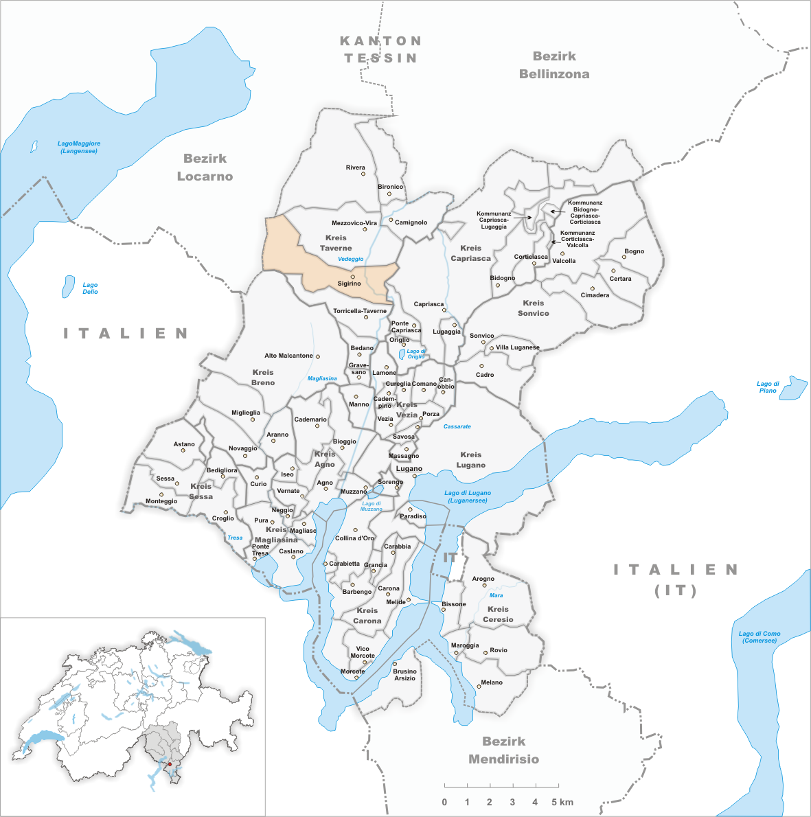 Municipality Sigirino